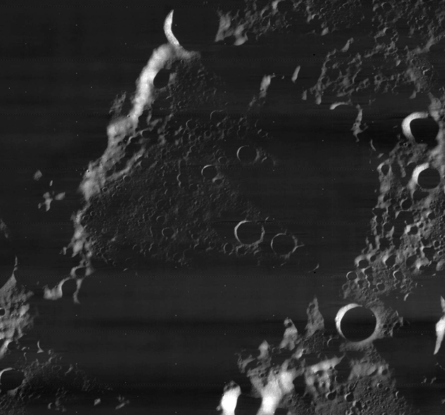 Peary, near the north pole of the moon. The pole itself is within the crater near center of top edge. Brightness and contrast adjusted from original.